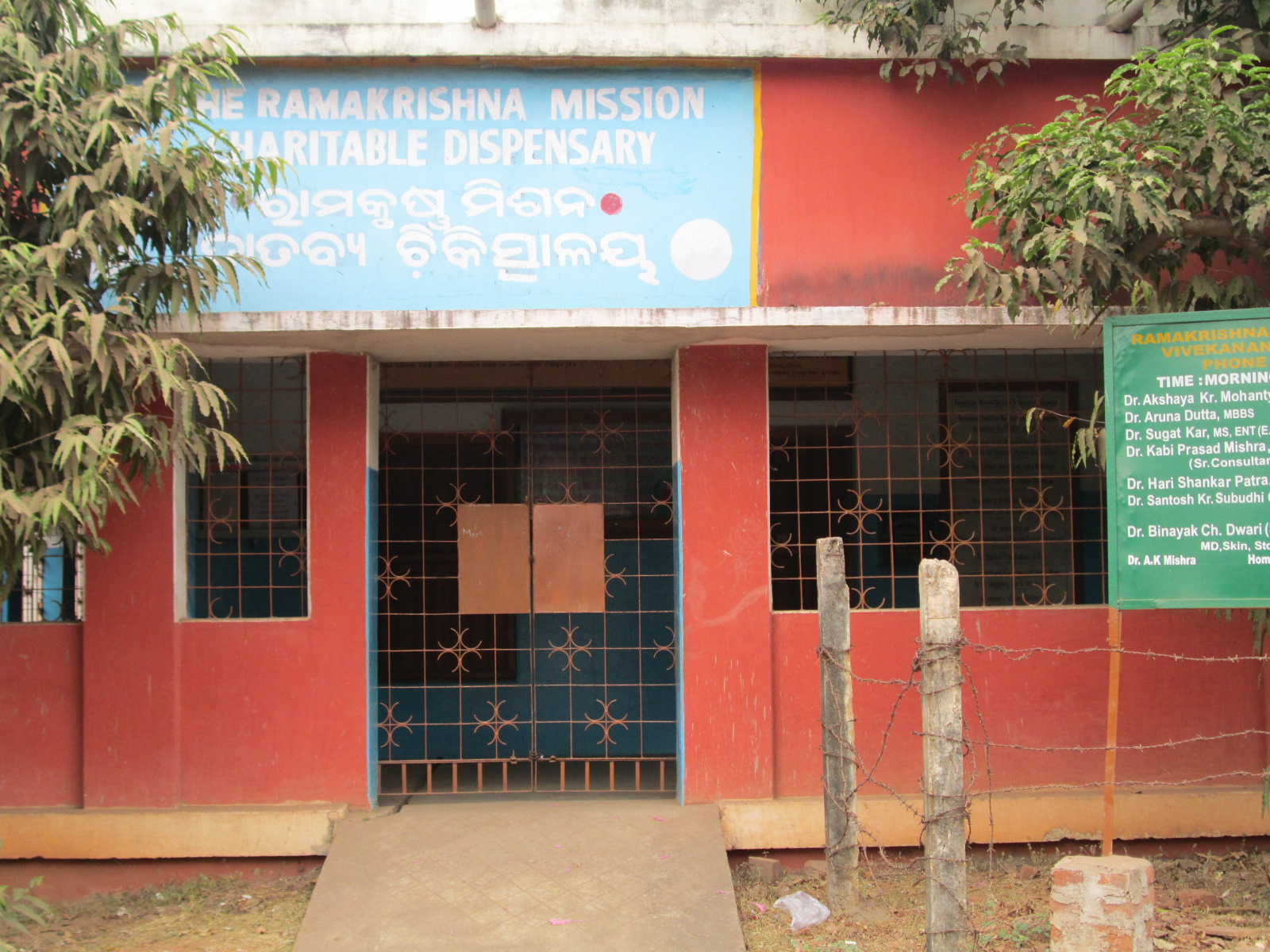 Ramakrishna Mission Charitable Dispensary,Bhubaneswar estblished in 1920 by Swami Brahmananda.